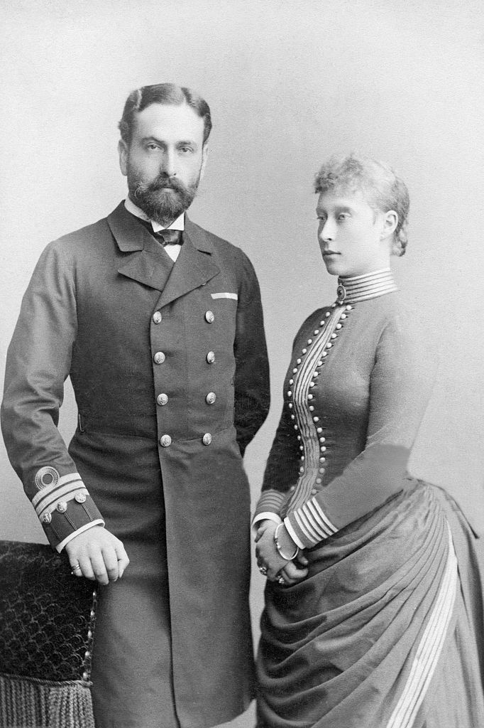 Prince Louis of Battenberg and his wife Princess Victoria of Hesse and by Rhine